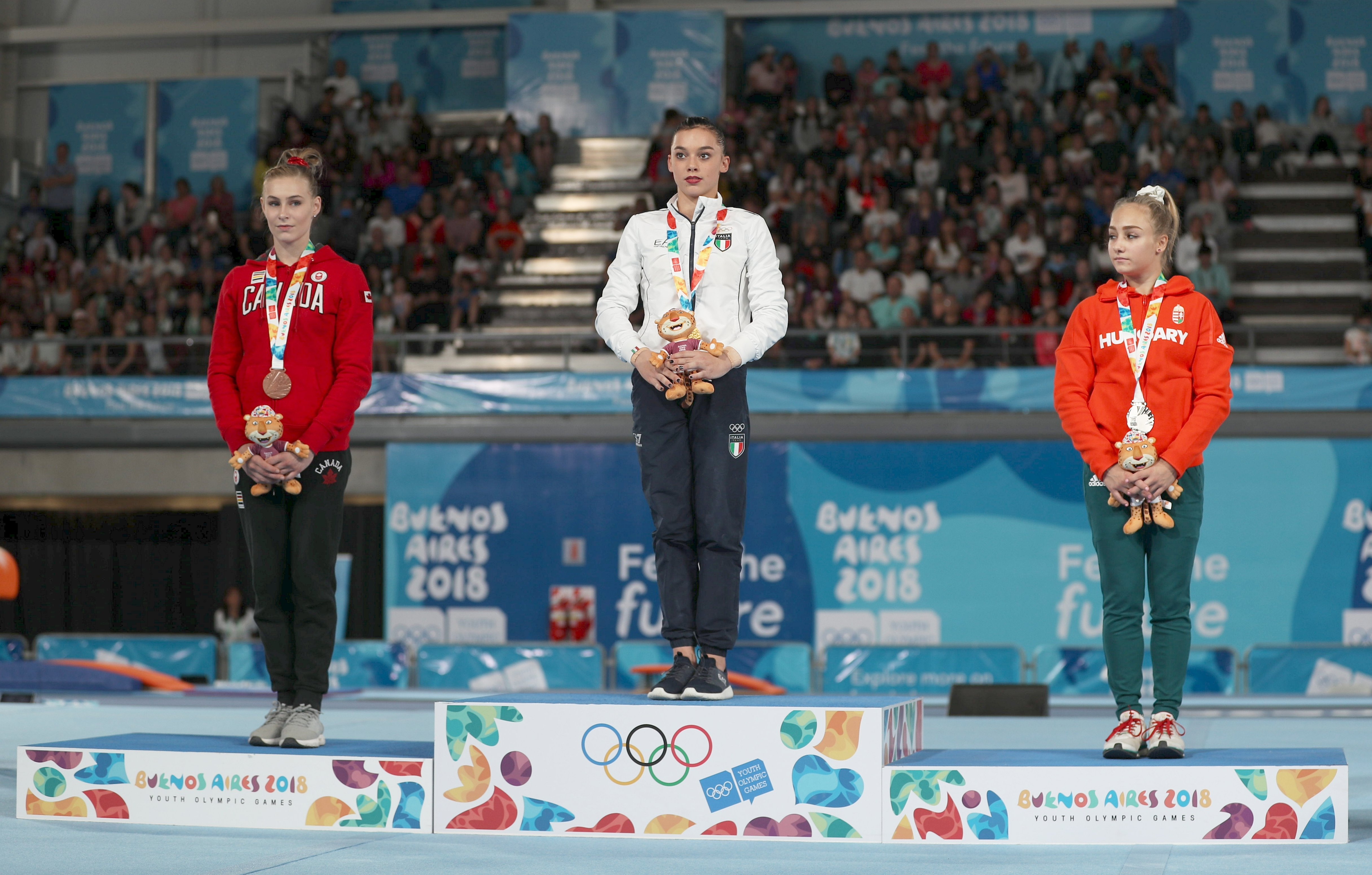 Victory ceremony for the vault apparatus final of the girls' artistic gymnastics at the 2018 Summer Youth Olympics in Buenos Aires on 13 October 2018. Depicted: Csenge Bácskay. Emma Spence. Giorgia Villa.